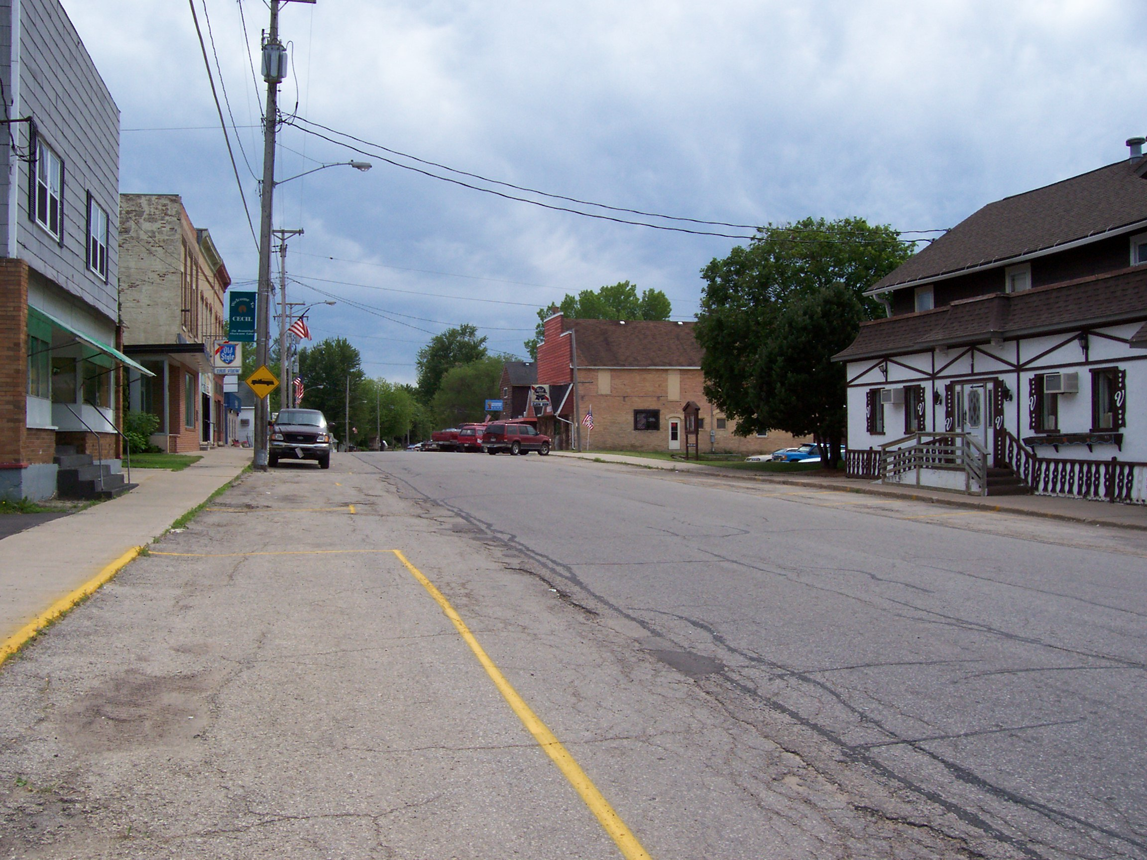 I took this picture myself looking south in a business district in Cecil, Wisconsin on June 11, 2006.